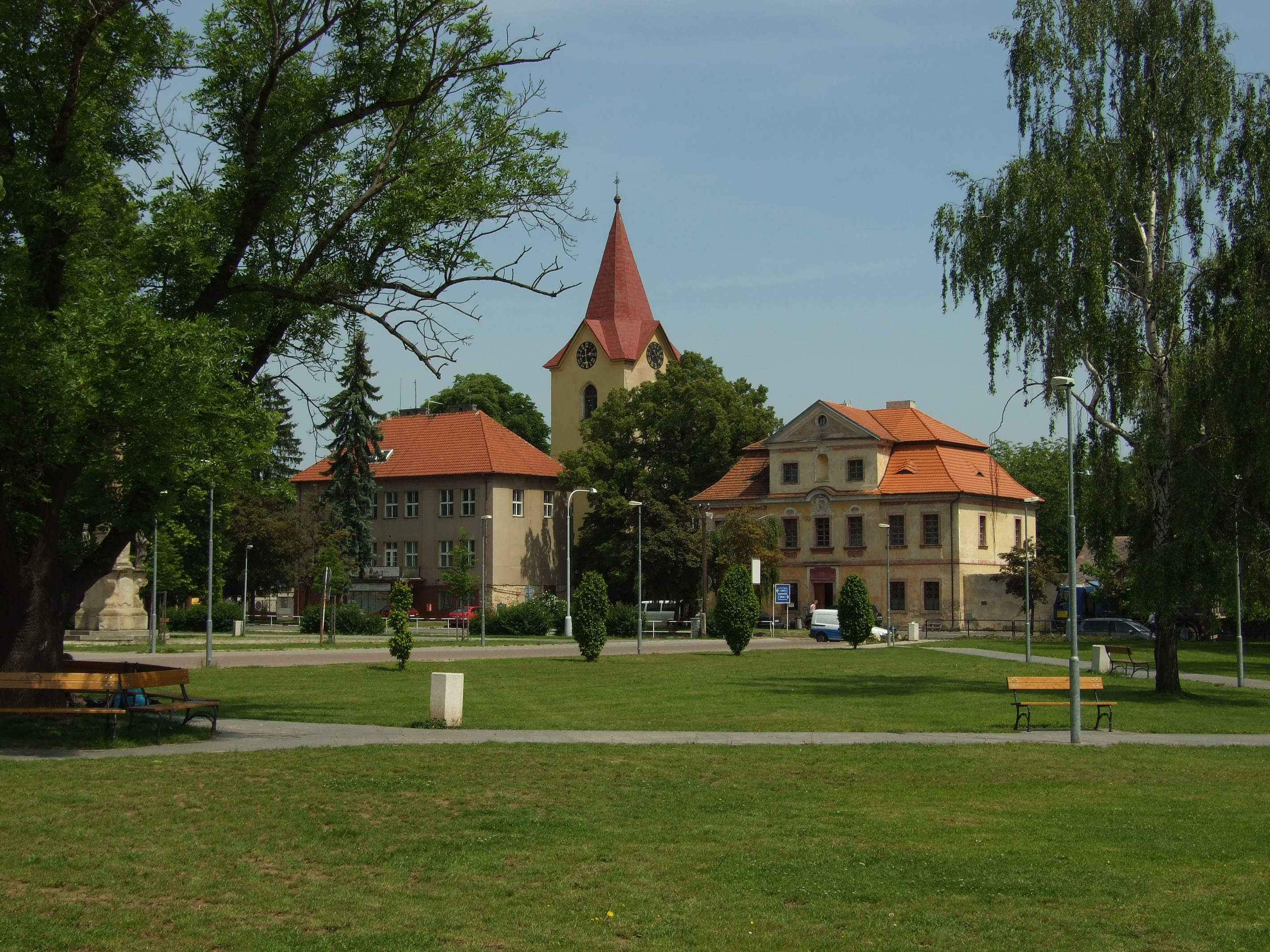 Town of Hostivice and surrounding nature near Prague, in Central Bohemian region, CZ. Here the east side of Husovo náměstí squarehelp